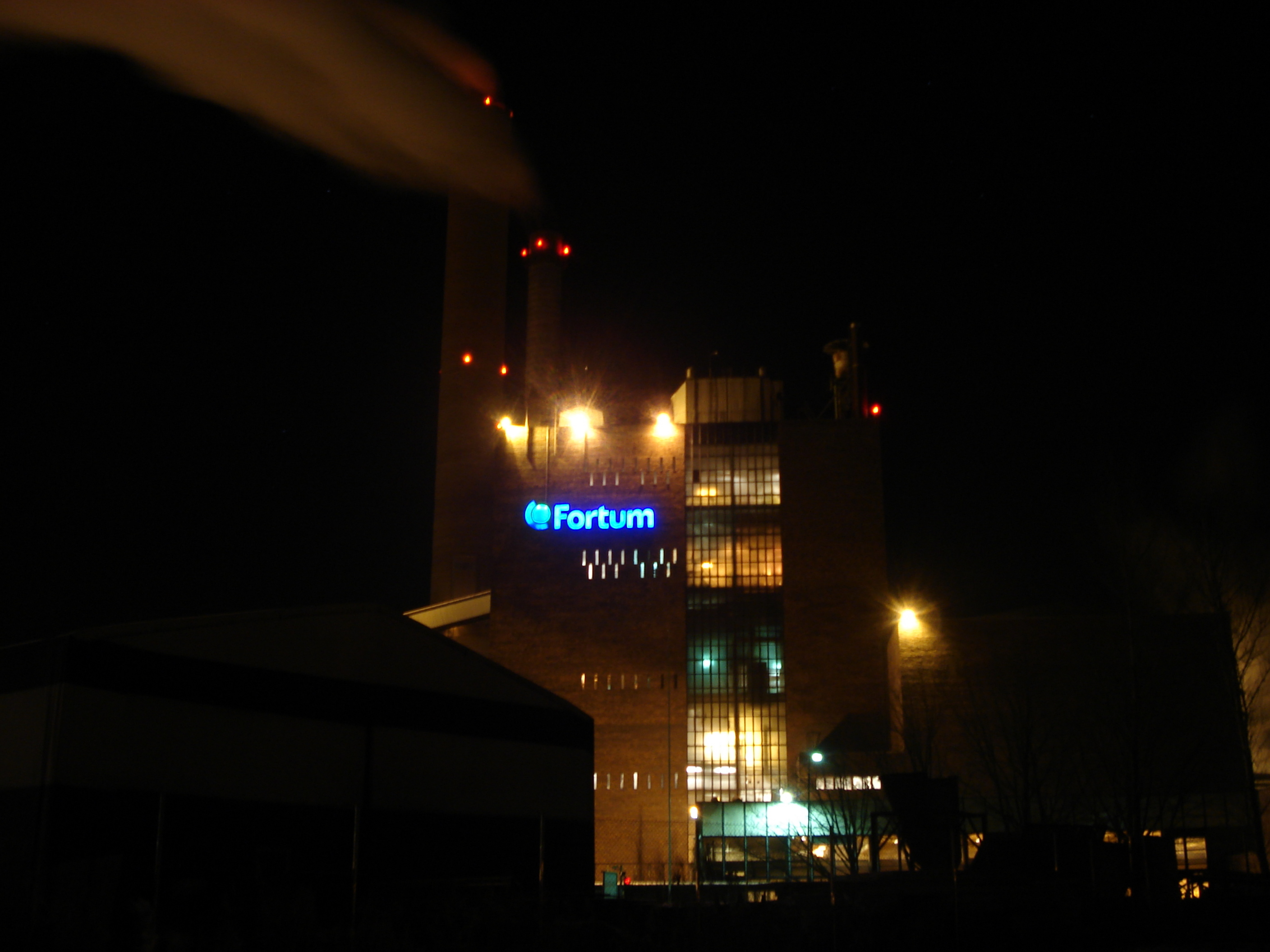 Naantali Power station is located at Naantali, Finland and it is owned by Fortum. Naantali Power Plant is one of the largest Nordic countries coal power plant.